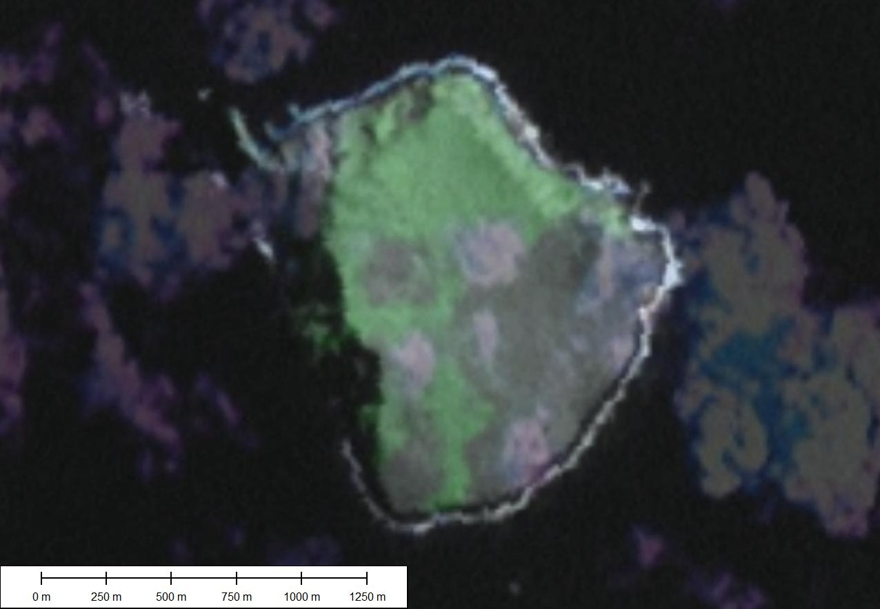 'Ata Island, Tonga, Pacific Ocean Image Fused Landsat WRS ETM+